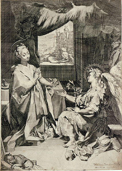 The Annunication. Etching and engraving with drypoint, 17 1/4 x 12 1/4 in. (43.8 x 31.1 cm). State ii/ii.